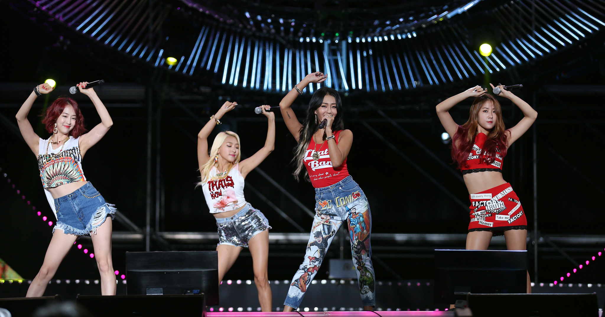 Sistar at The 70th Independence Day of Republic of Korea on August 14, 2015.